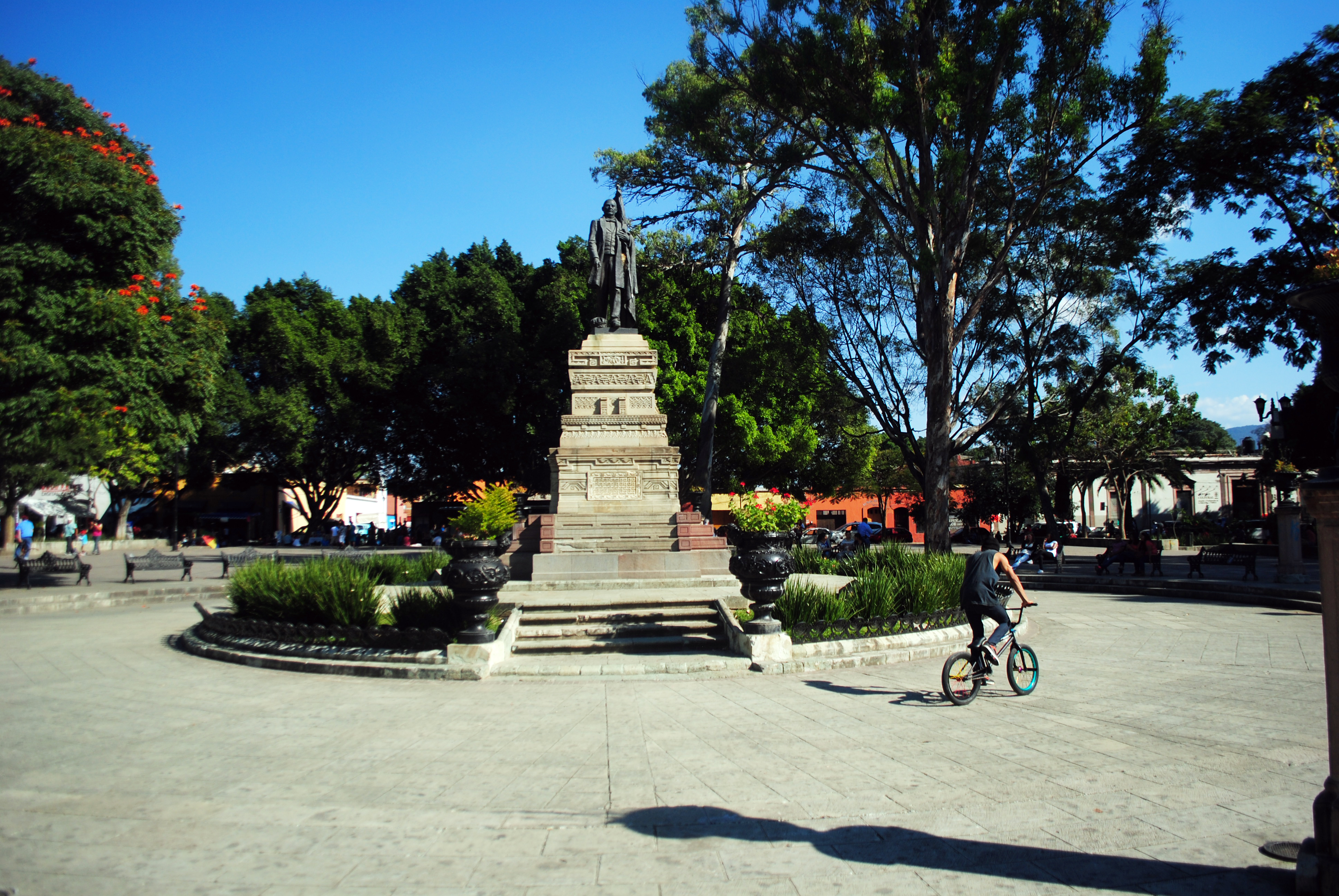 Paseo Juarez "El Llano" is a public park in the Historic Centre of Oaxaca, one of the oldest of the city